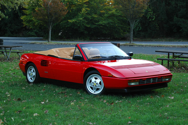 Last in the Mondial cabriolet series, the "t" is externally differentiated from the earlier 3.2 by body colored door handles and subdued rectangular side air intake strakes. Significantly more cabriolets than coupes were made in the "t" series.